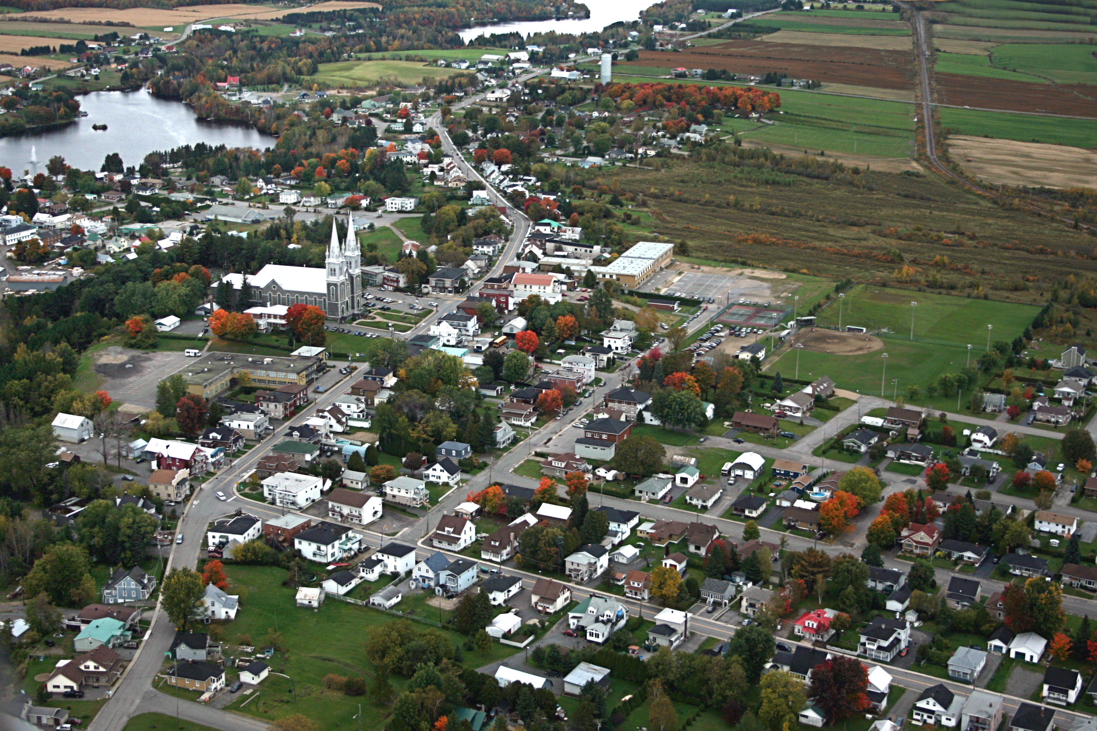 Fall 2008 aerial picture of Sainte-Thècle village, in Mauricie, QC